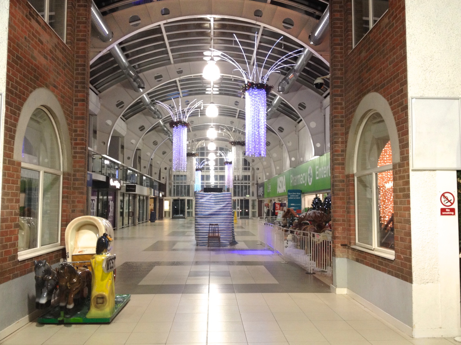 Dunmail Park, looking back toward the entrance from near the cinema.